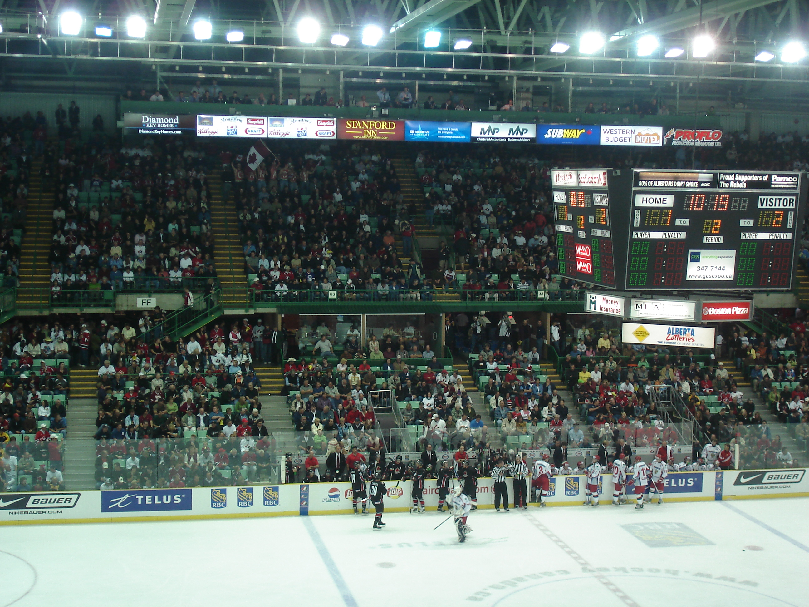 Canada-Russia SuperSeries, Game 7, in front of over 7,000 fans. September 7, 2007, ENMAX Centrium, Red Deer.